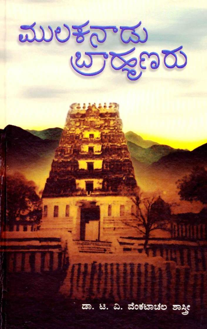 "Mulukanadu Brahmanaru" by T. V. Venkatachala Sastry - A Study in Genealogy and Sociology of South Indian Brahminical Mulukanadu Sect, their origins and present day occupations.